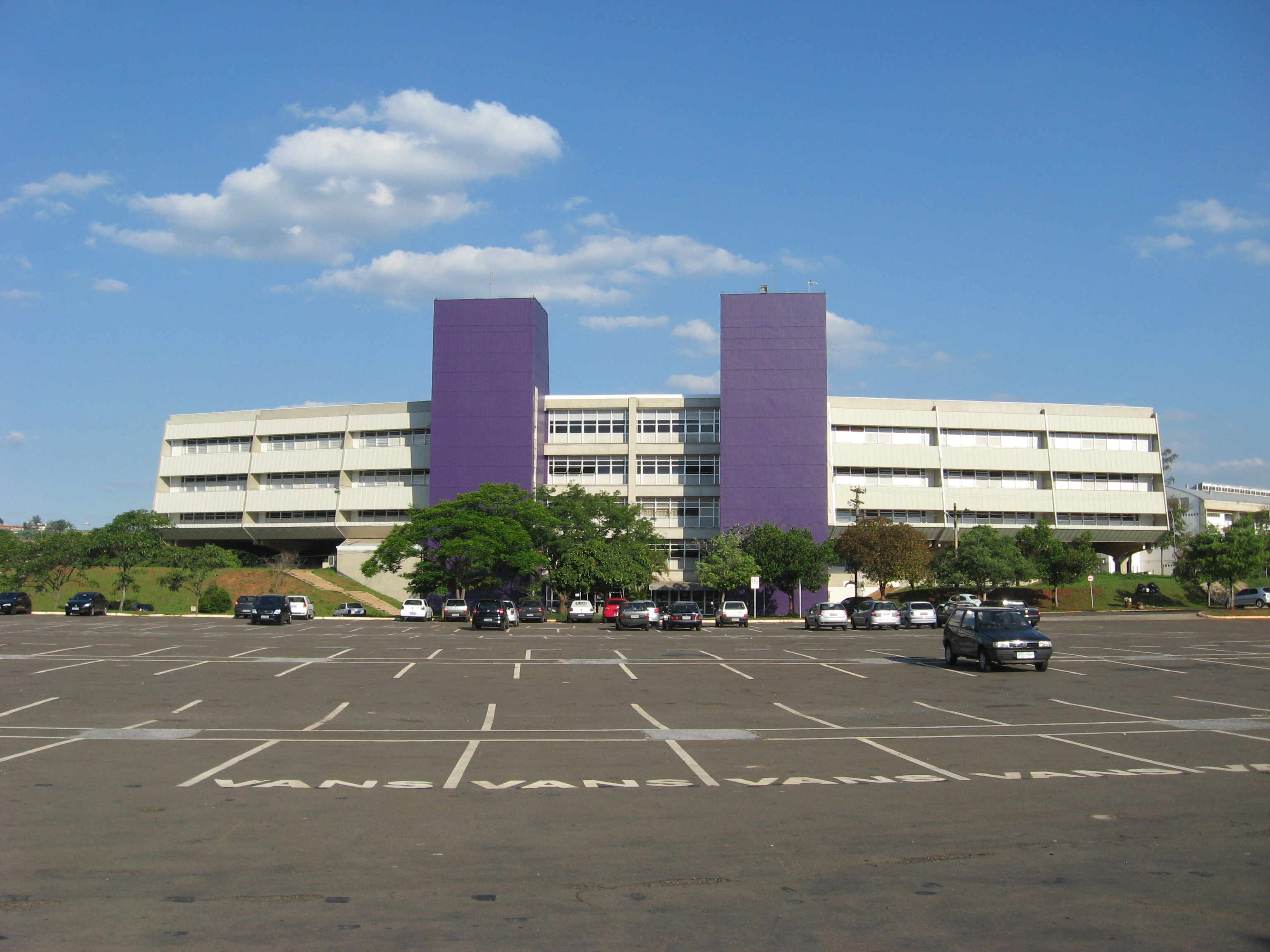 Central Library in Campinas State University (Unicamp), Campinas, Brazil.